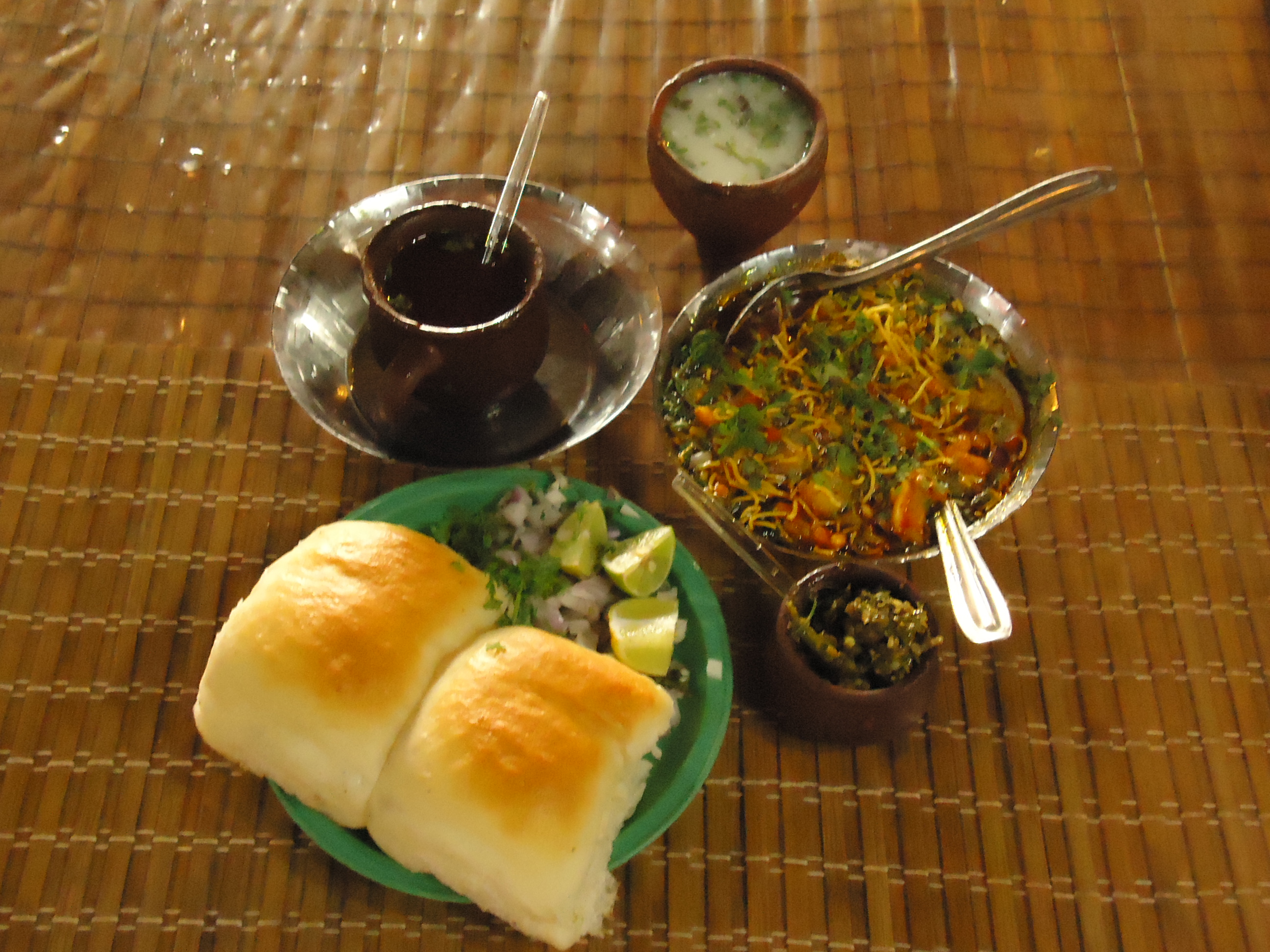 Misal Pav is a daily snack.